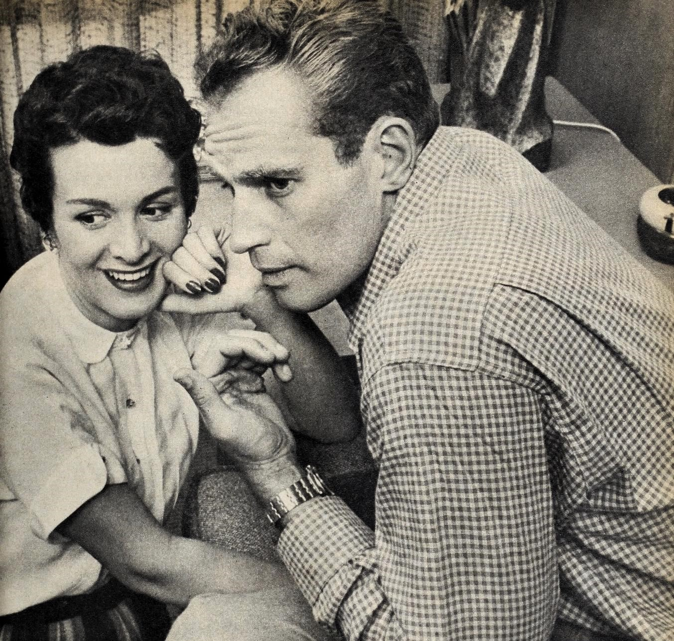 Lydia Clarke and Charlton Heston, 1954